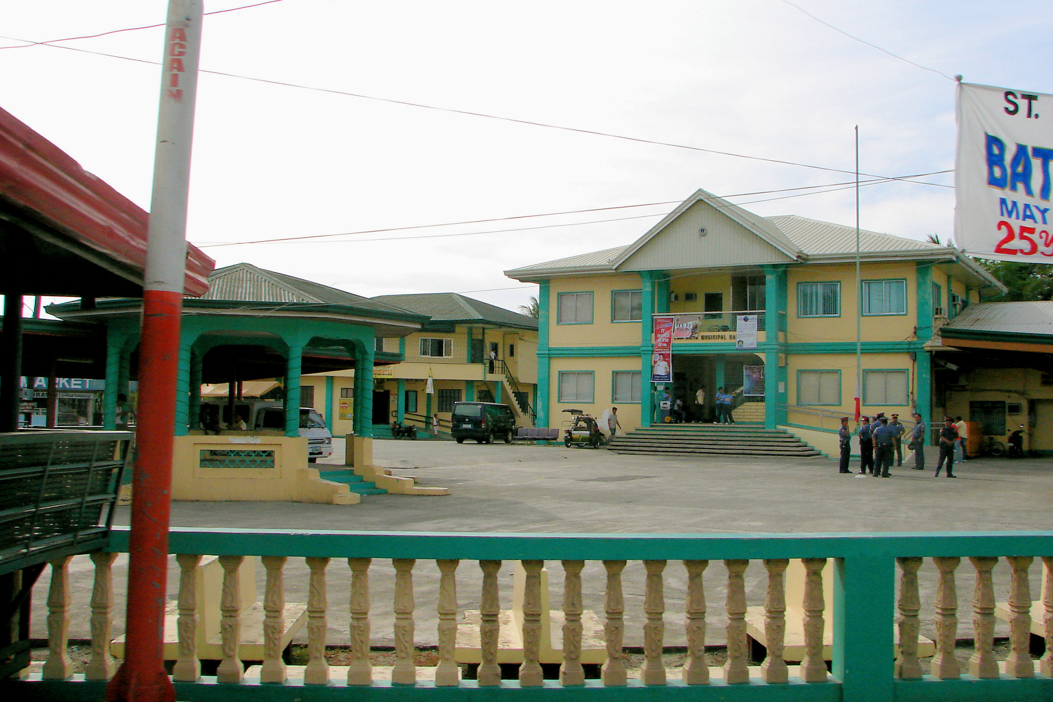 Municipal hall of Labrador, Pangasinan, Philippines